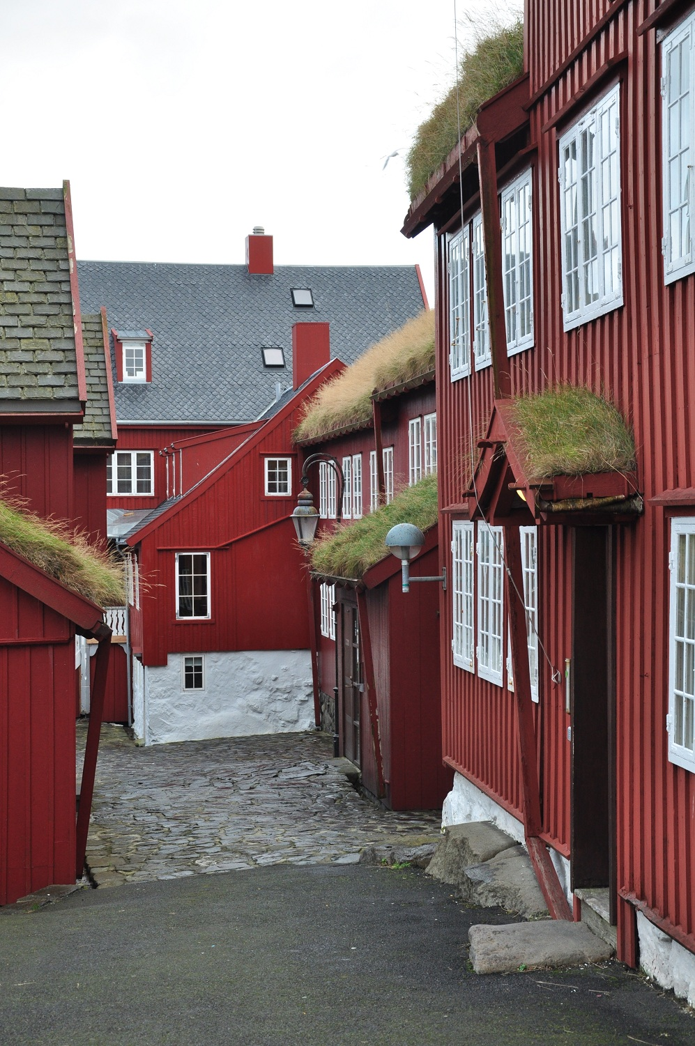 In the narrow alleys of the Tinganes peninsula, Tórshavn, centre.